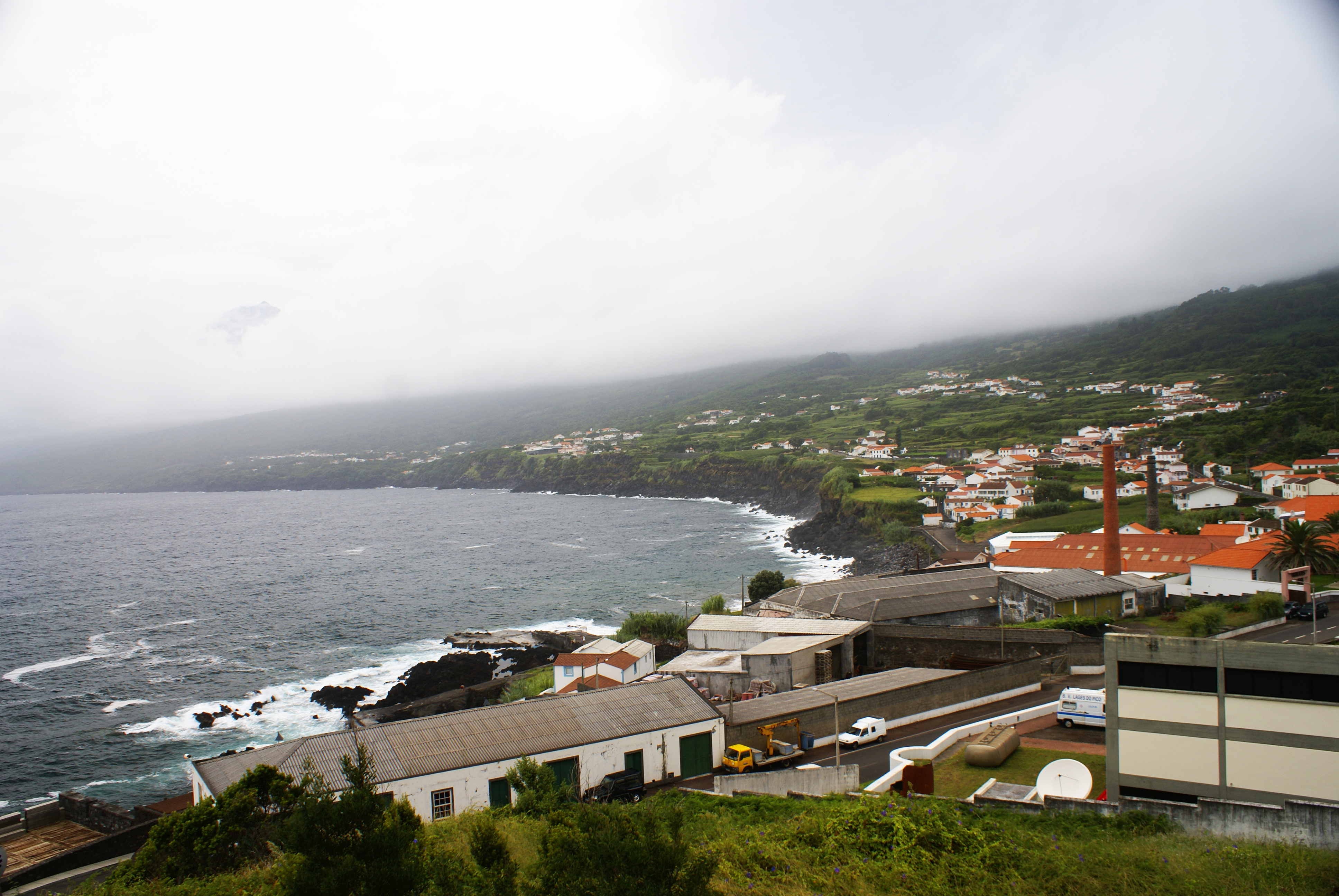 Lajes do Pico, vista parcial, ilha do Pico, Açores, Portugal